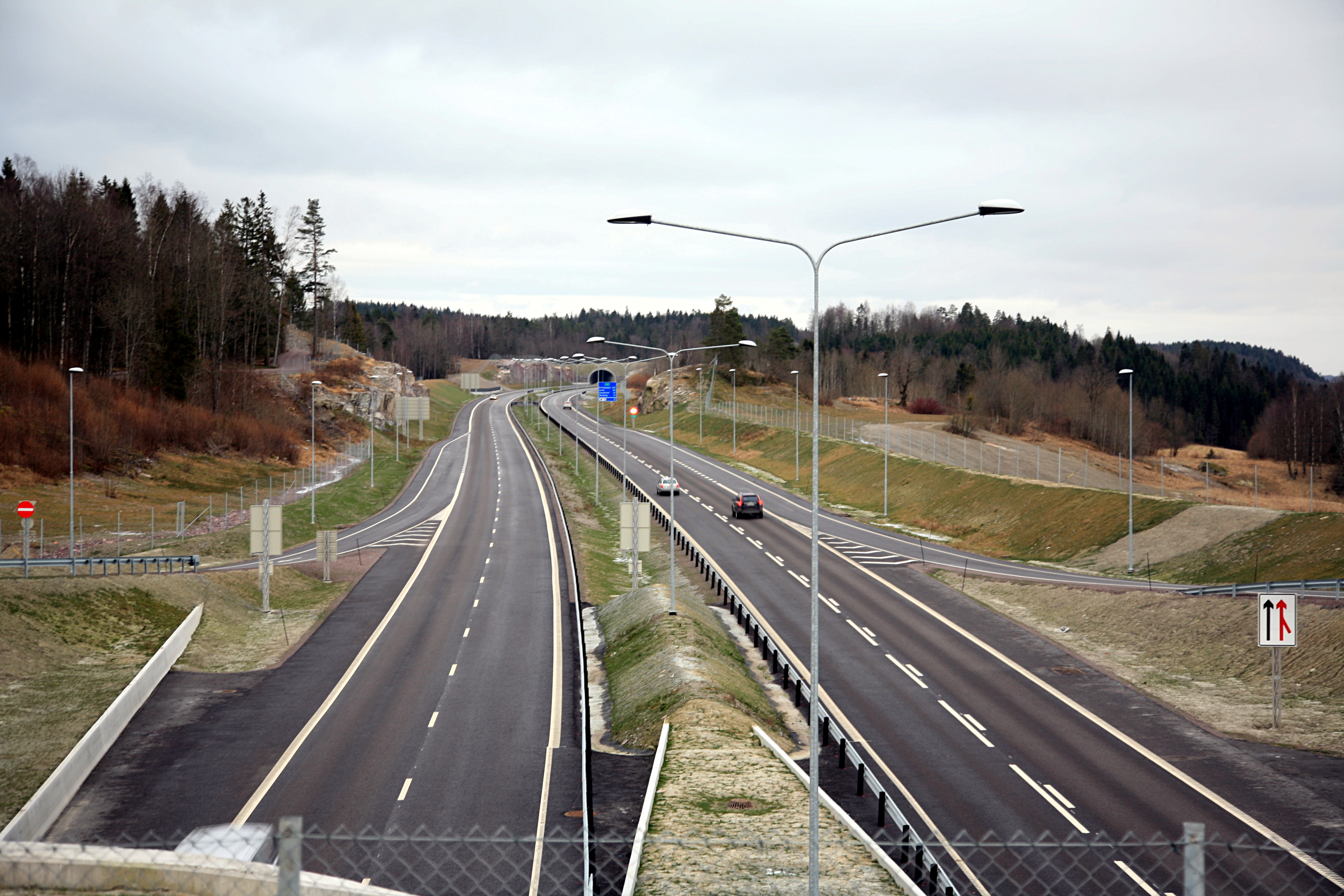 E18 direction south at the Undrumsdal exit in Vestfold, Norway